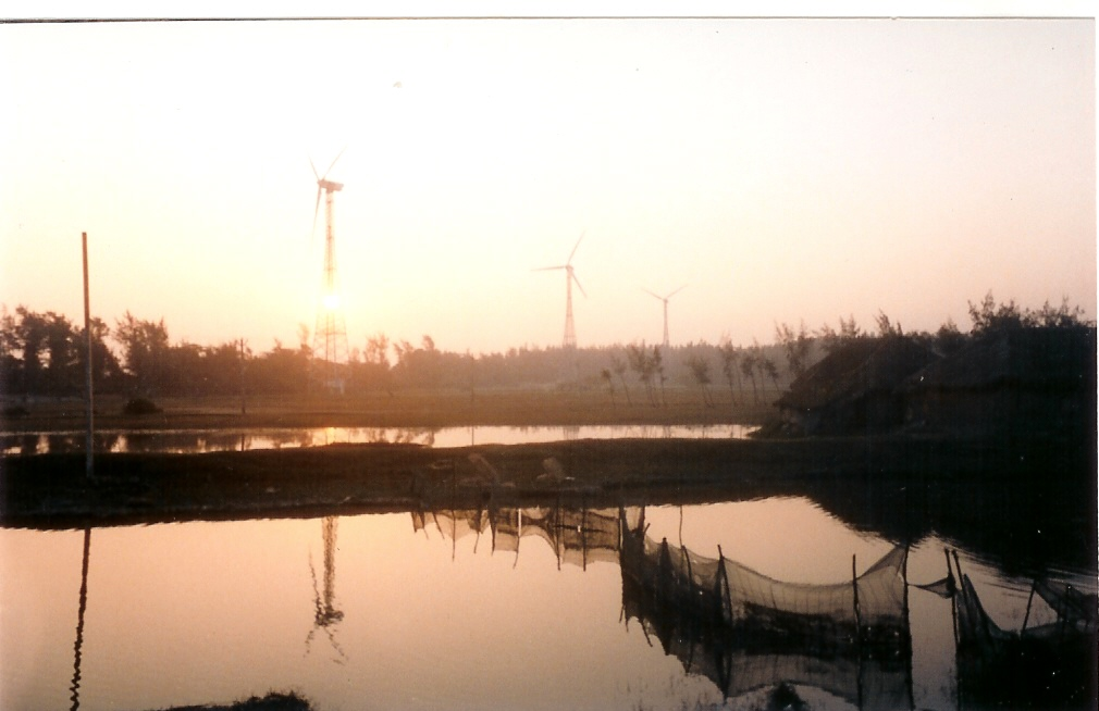 Own photograph Frassergunj Windmills